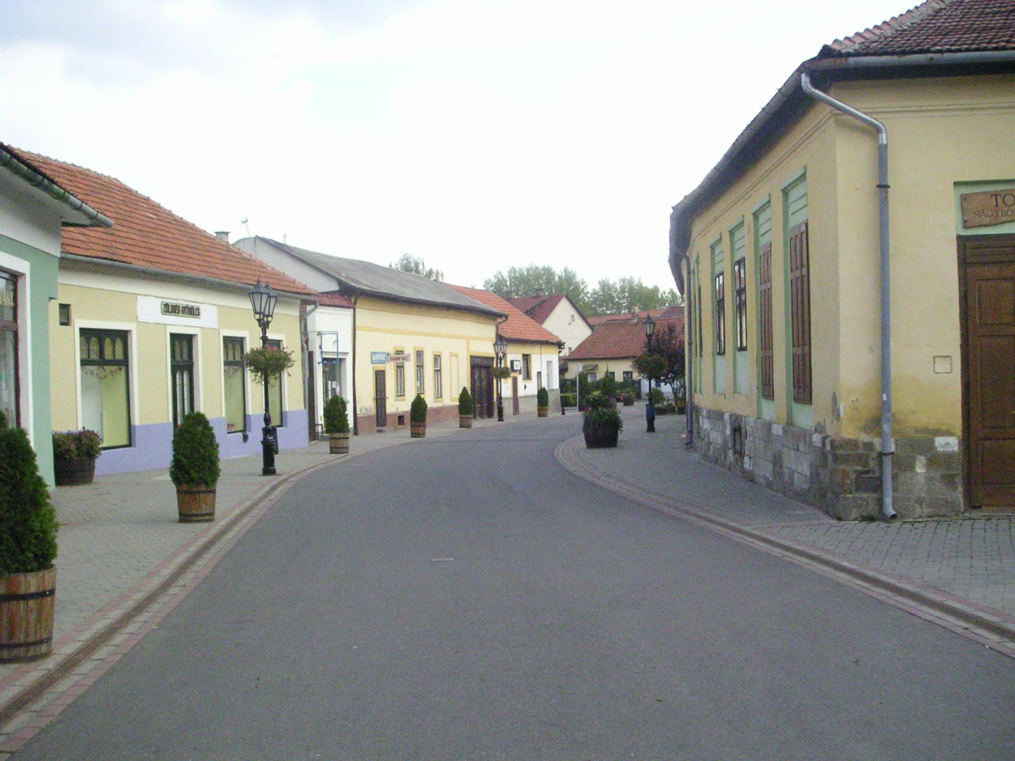 Tokaj, Hungary